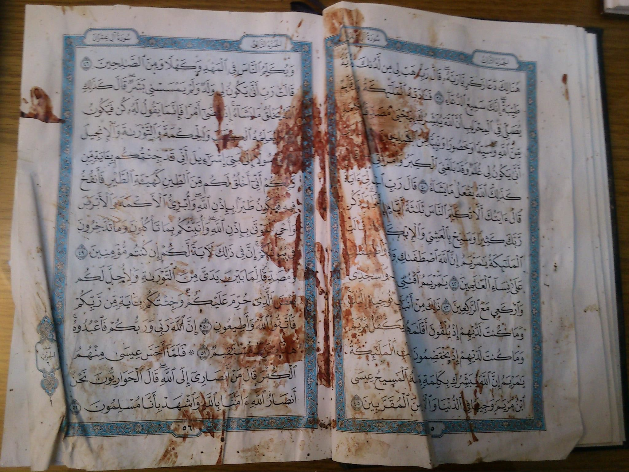 The quran that Mohammad Saeed Al-Bouti was holding before he was killed